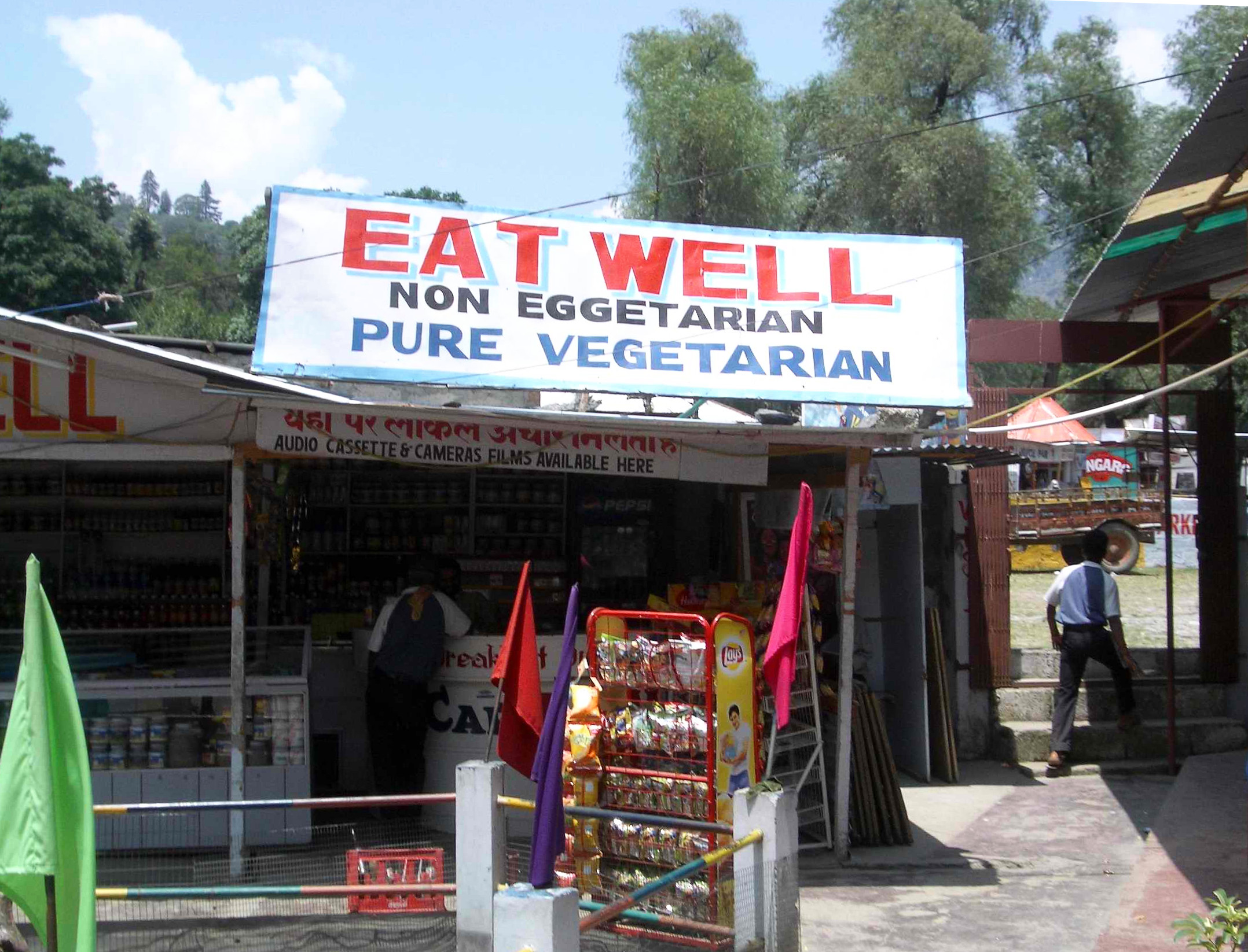 I took this photo myself on the way to Manali 2004